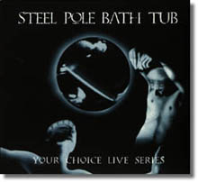 Record Cover of the YCLS 019 album by "Seel Pole Bath Tub" (live album on Your Choice Records)